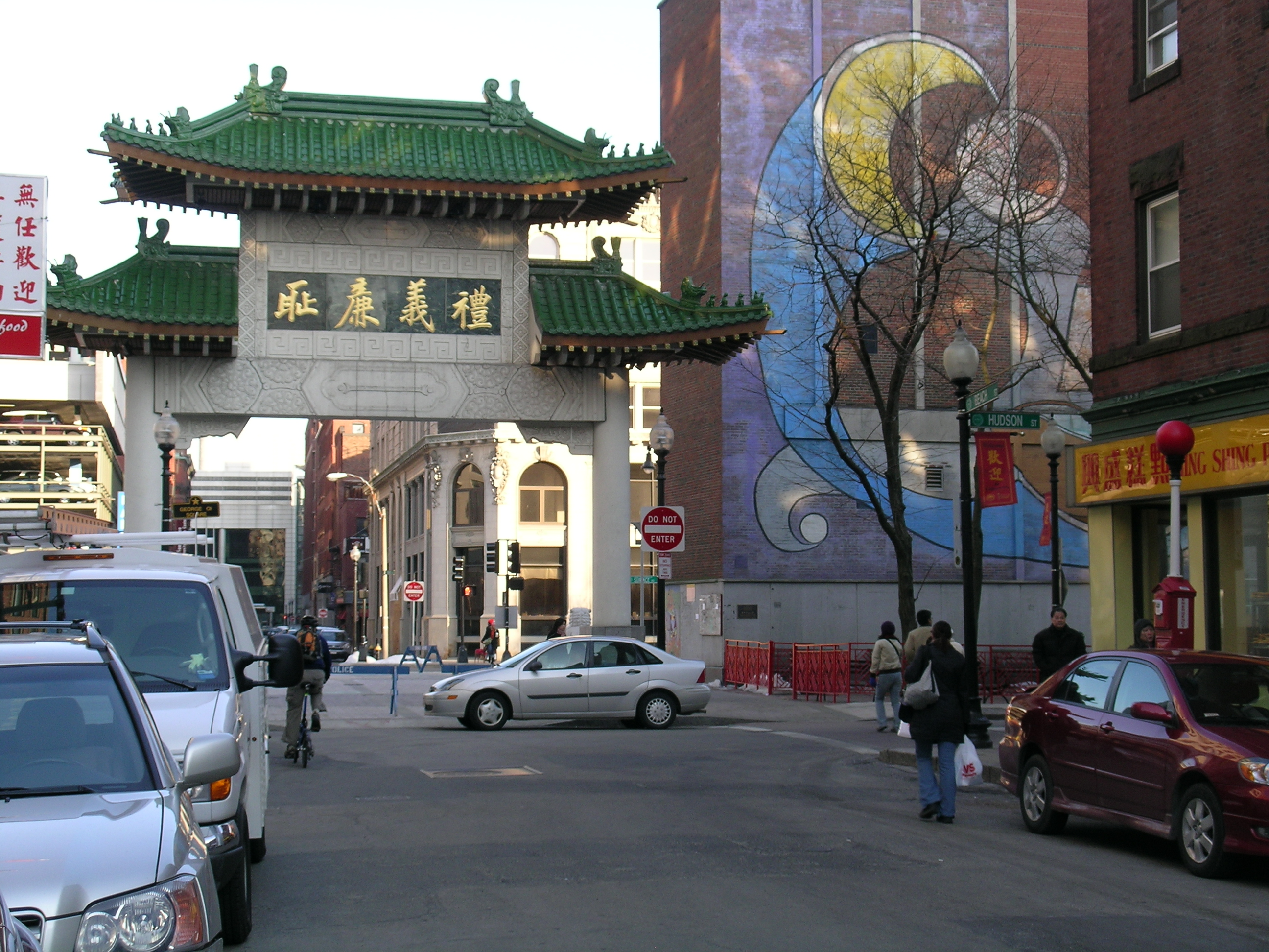 Paifang in Chinatown in Boston, Massachusetts, United States. March 2008 photo by John Stephen Dwyer - Category:Chinatown gates, Category:Chinatown, Boston